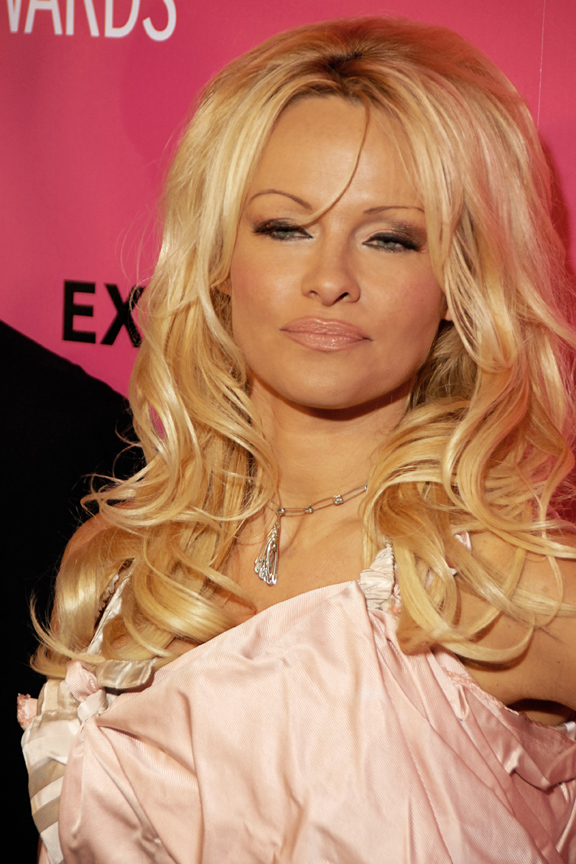 Pamela Anderson attending "The 6th Annual Hollywood Style Awards" Beverly Hills, CA on Oct. 11, 2009 - Photo by Glenn Francis of